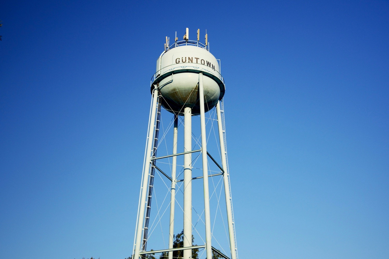 Water tower in Guntown, Mississippi, United States.